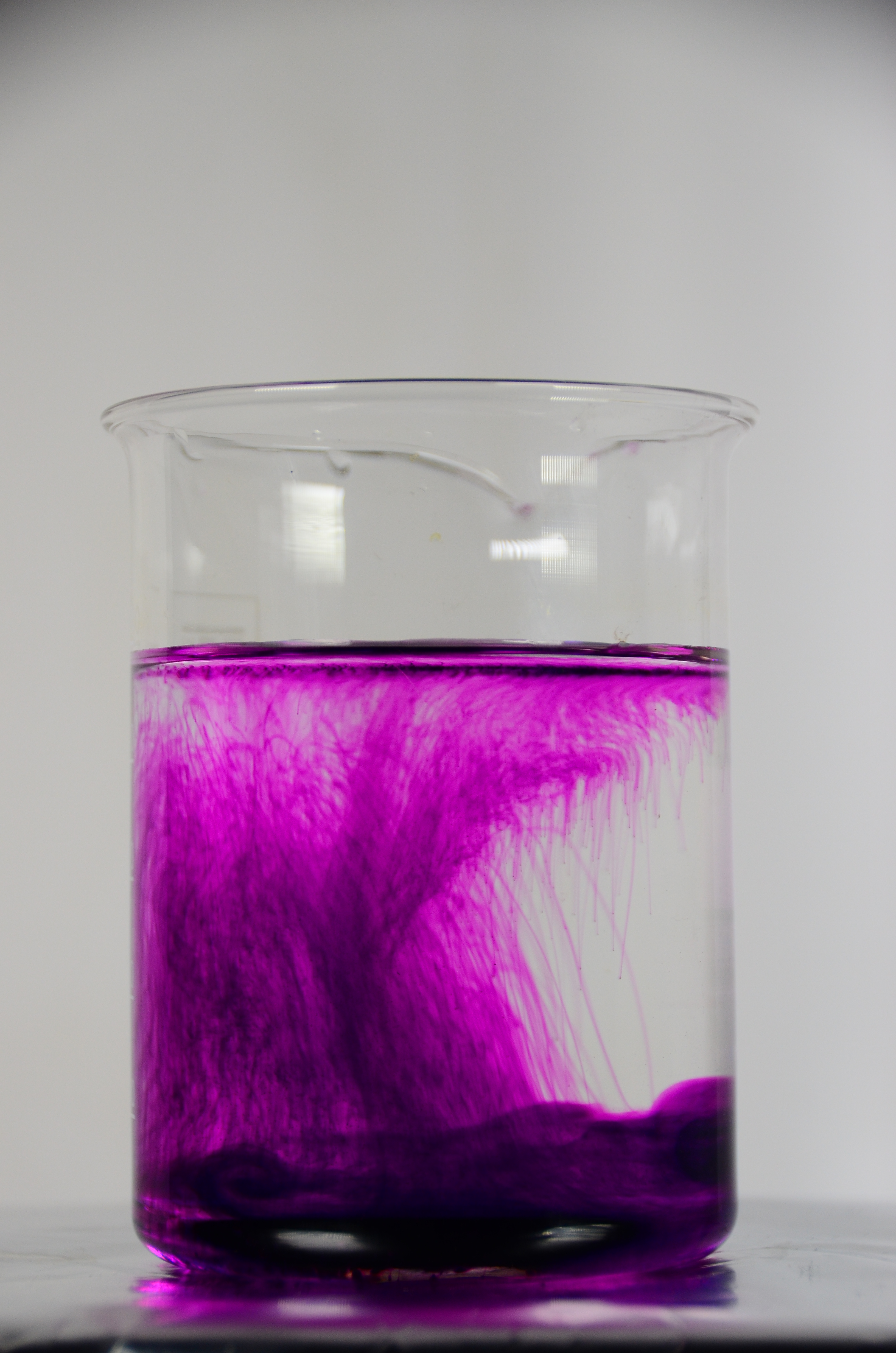 KMnO4 diffusion